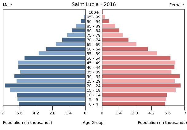 The population pyramid of Saint Lucia illustrates the age and sex structure of population and may provide insights about political and social stability, as well as economic development. The population is distributed along the horizontal axis, with males shown on the left and females on the right. The male and female populations are broken down into 5-year age groups represented as horizontal bars along the vertical axis, with the youngest age groups at the bottom and the oldest at the top. The shape of the population pyramid gradually evolves over time based on fertility, mortality, and international migration trends.